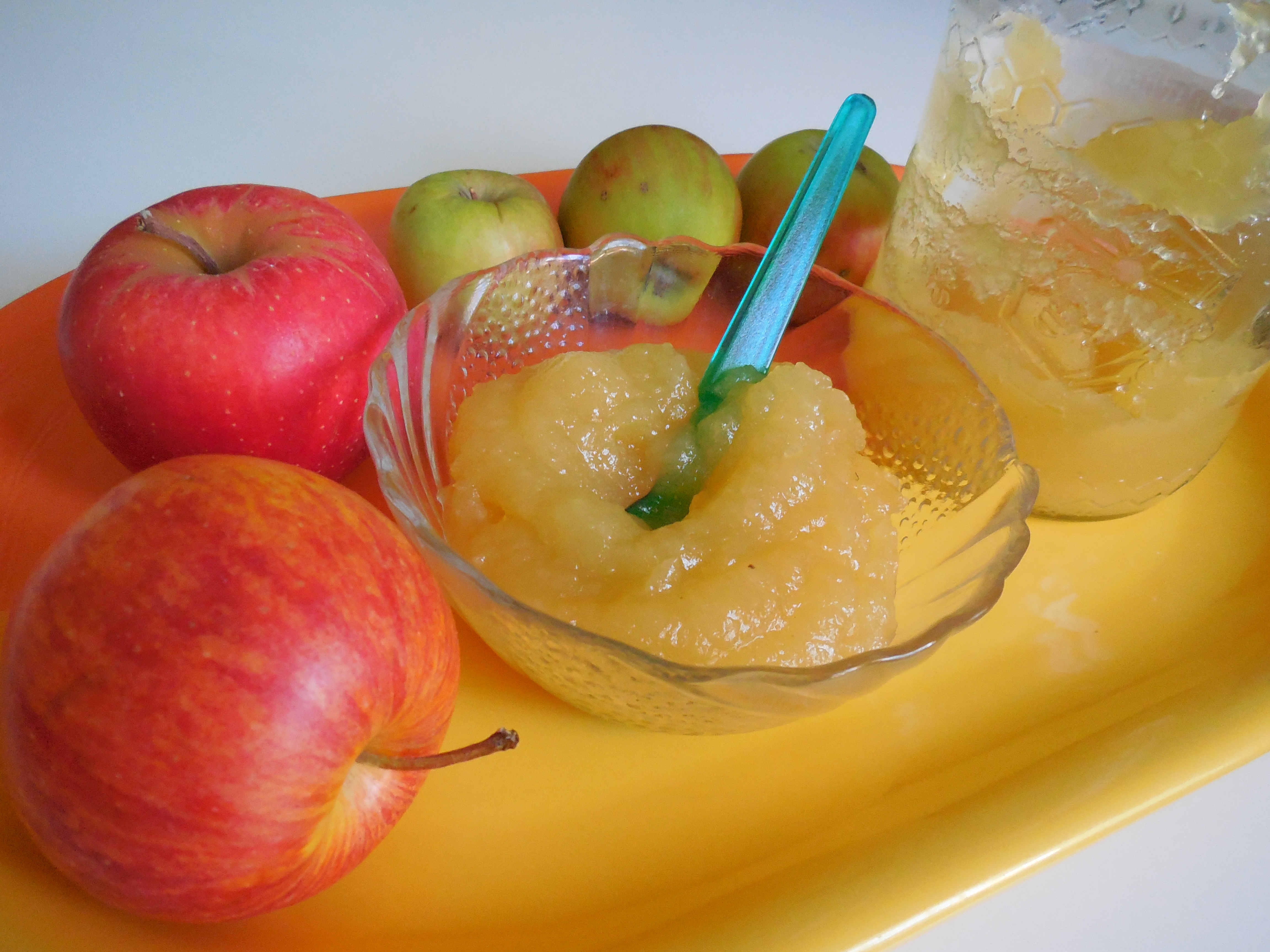 Homemade apple purée